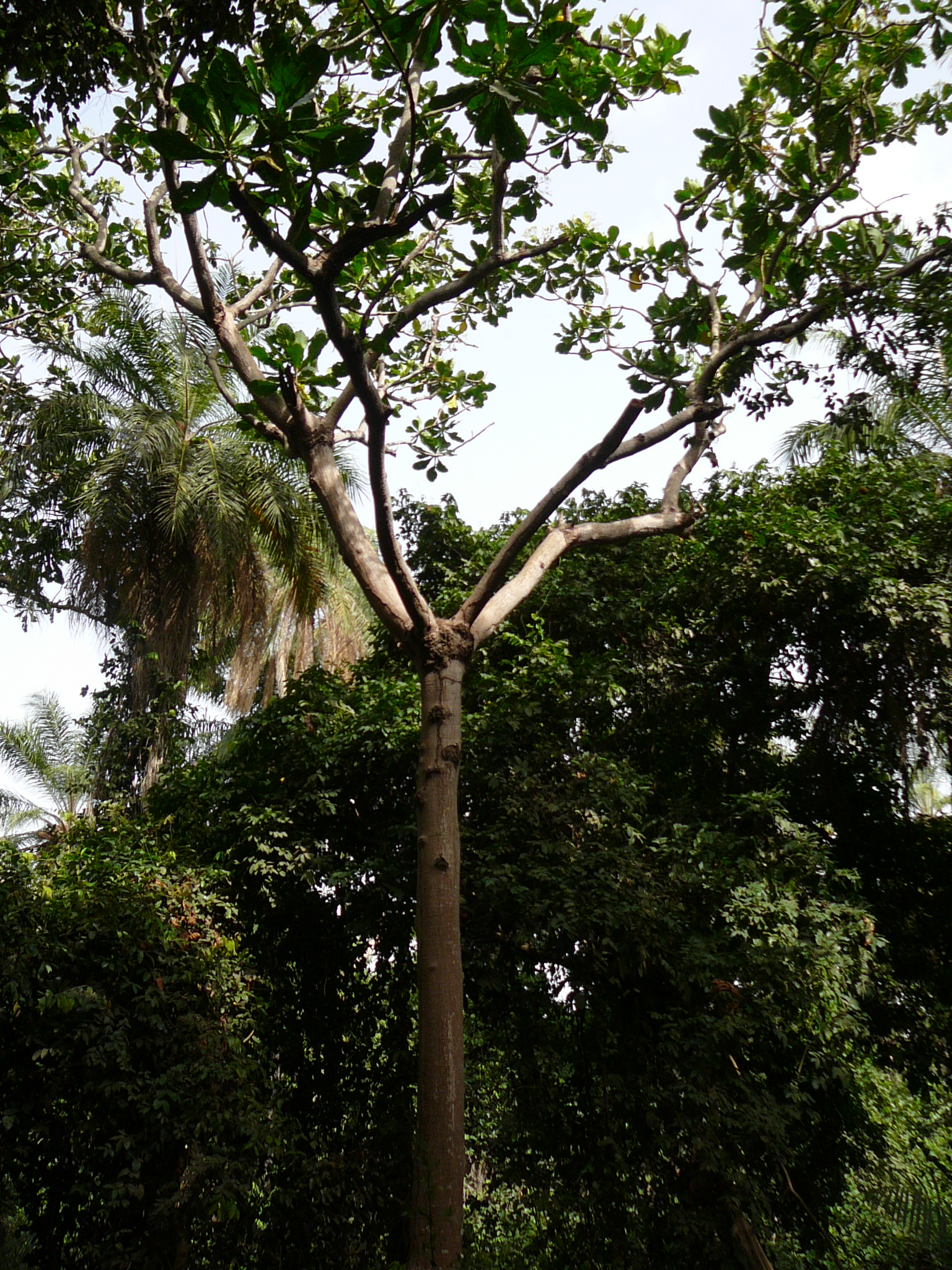 Cabbage tree/Candelabrum tree